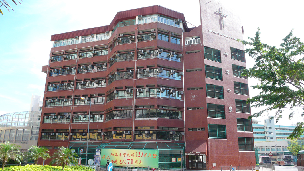 Pui Ying Secondary School